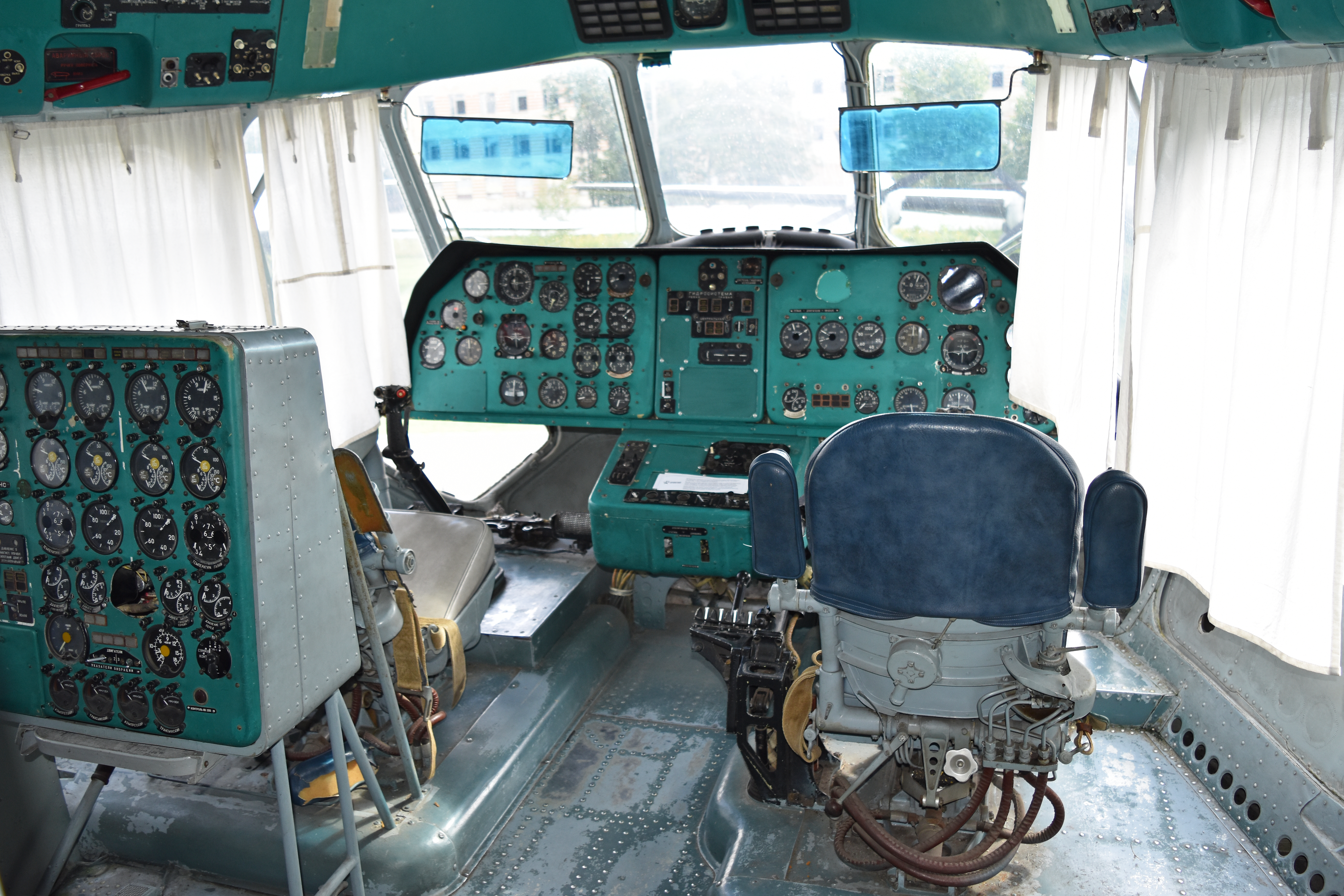 This is the lower cockpit of the impressive Mil V-12. The pilot, co-pilot, flight engineer and electrical engineer were in this cockpit, while the navigator and radio operator were upstairs. We were very privileged to be given full access to the aircraft during our visit. Since 1975 it has been on display at the Central Air Force museum, Monino, Moscow Oblast, Russia. 27th August 2017